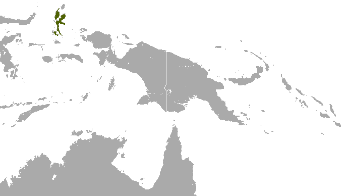 Halmahera Blossom Bat (Syconycteris carolinae) range